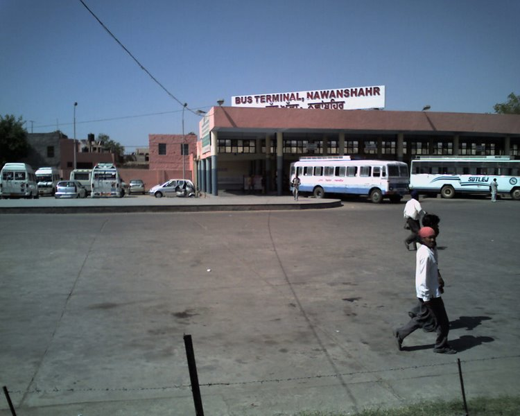 The Nawashahr Bus Terminal. Used and released under the mentioned license, with permission from the photographer, one of my best friends Gurtek Singh .